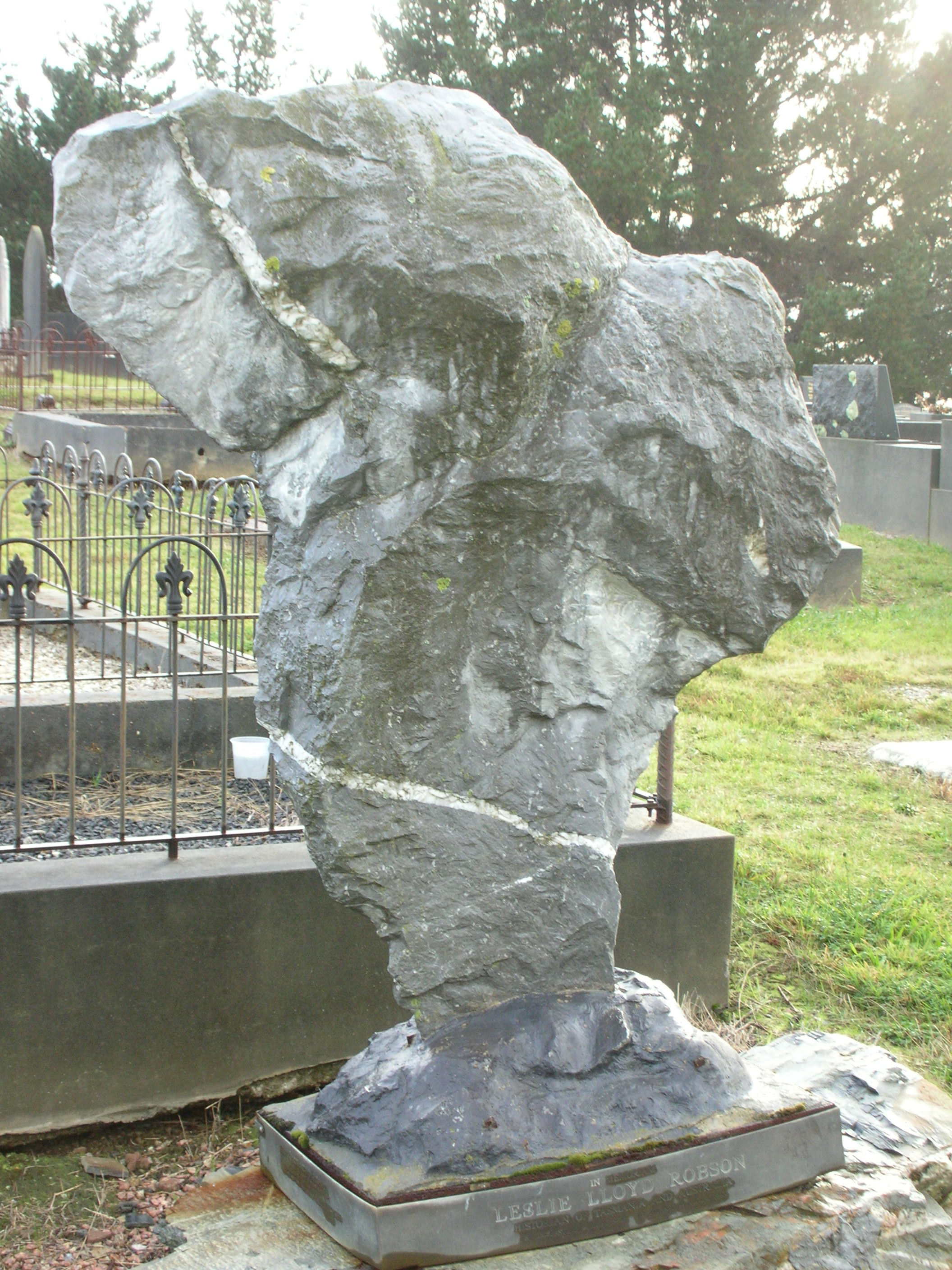 Redolent of Neolithic Rocks, it's a standout monument in the cemetery